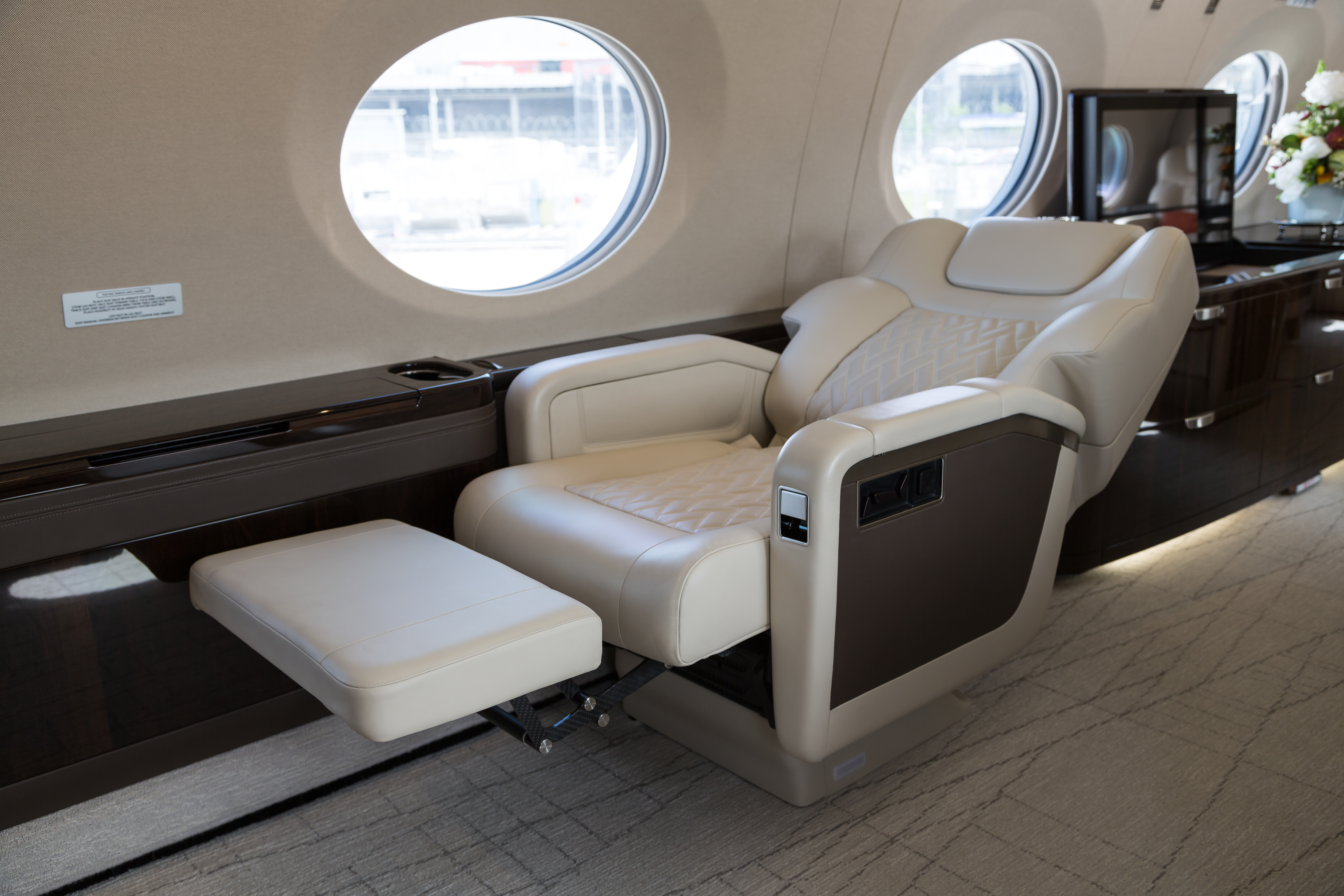 Gulfstream G600, EBACE 2018